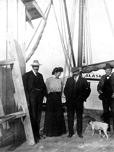 Subjects (LCTGM): Ships; Dogs Subjects (LCSH): Cobb, John N. (John Nathan), 1868-1930